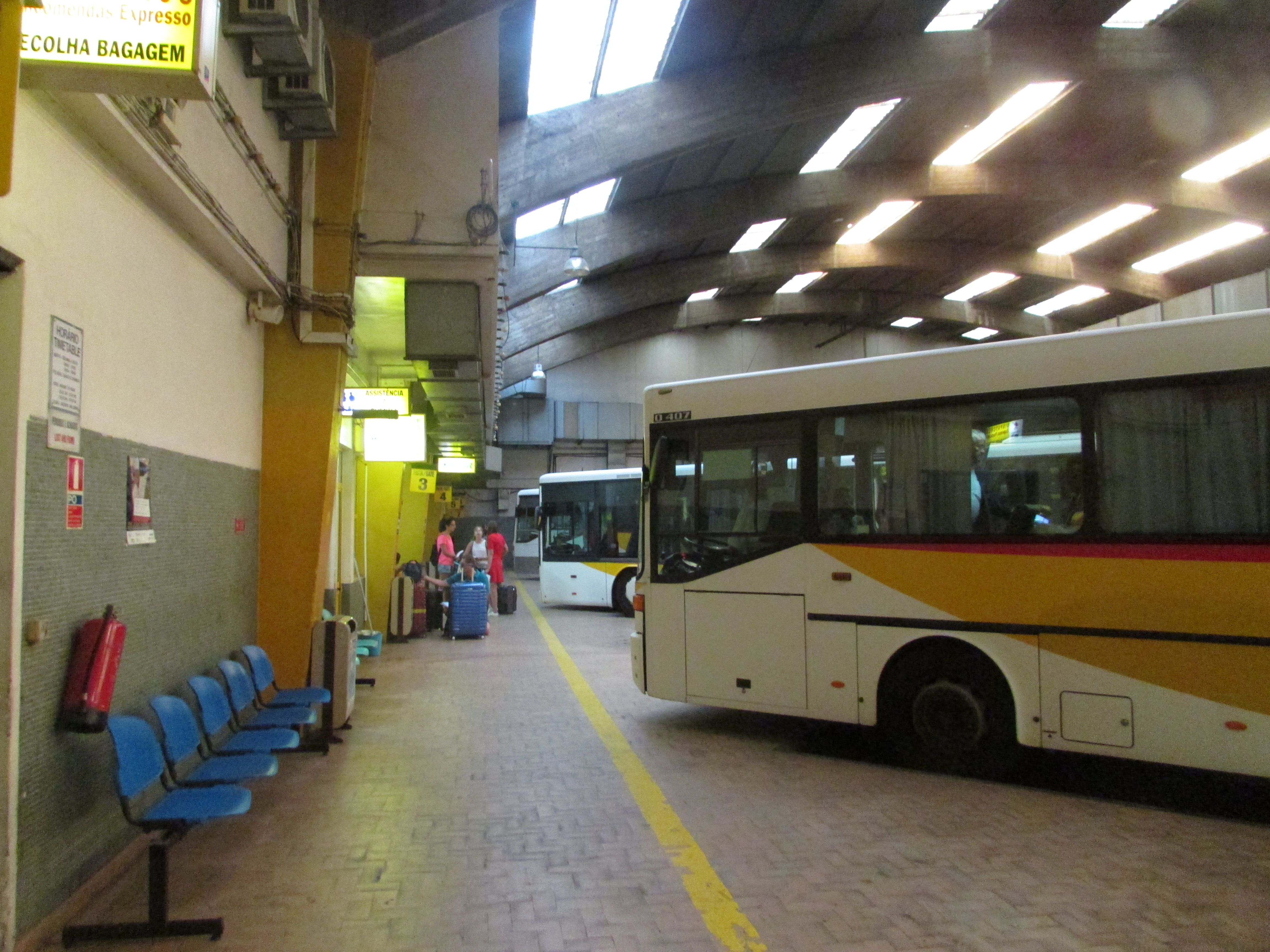 The main bus terminal within the city of Faro, Algarve, Portugal.